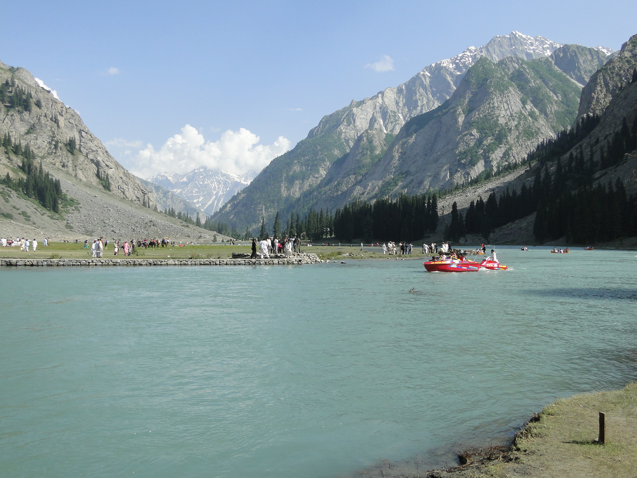 Mahu Dan Swat Valley